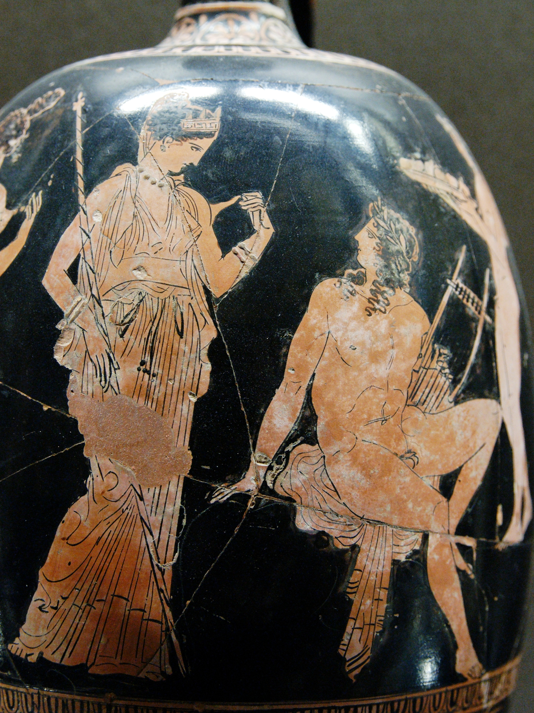 Aphrodite and Adonis. Attic red-figure squat lekythos, ca. 410 BC.